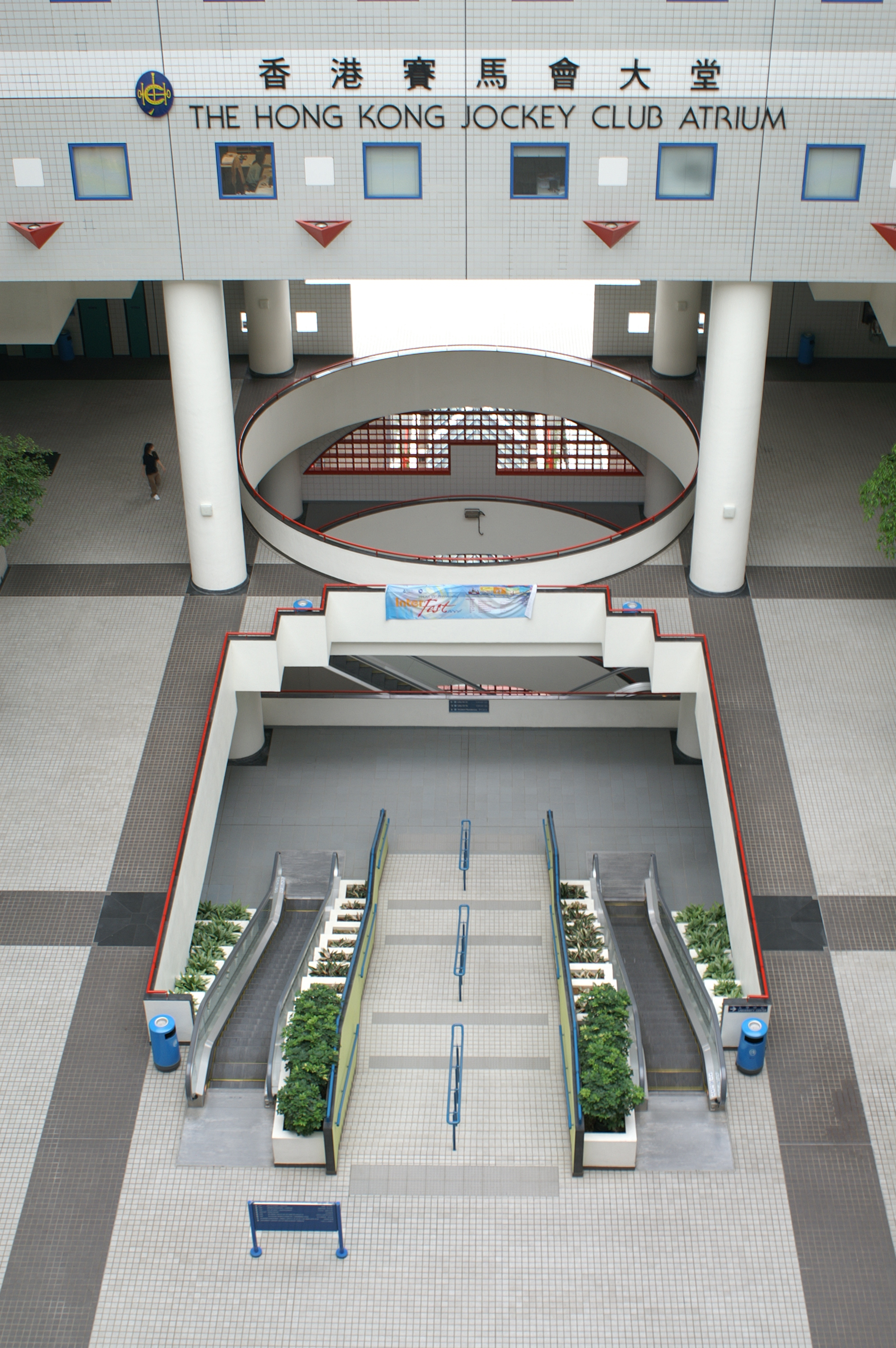 The hidden emblem of HKUST can be found at the Atrium.